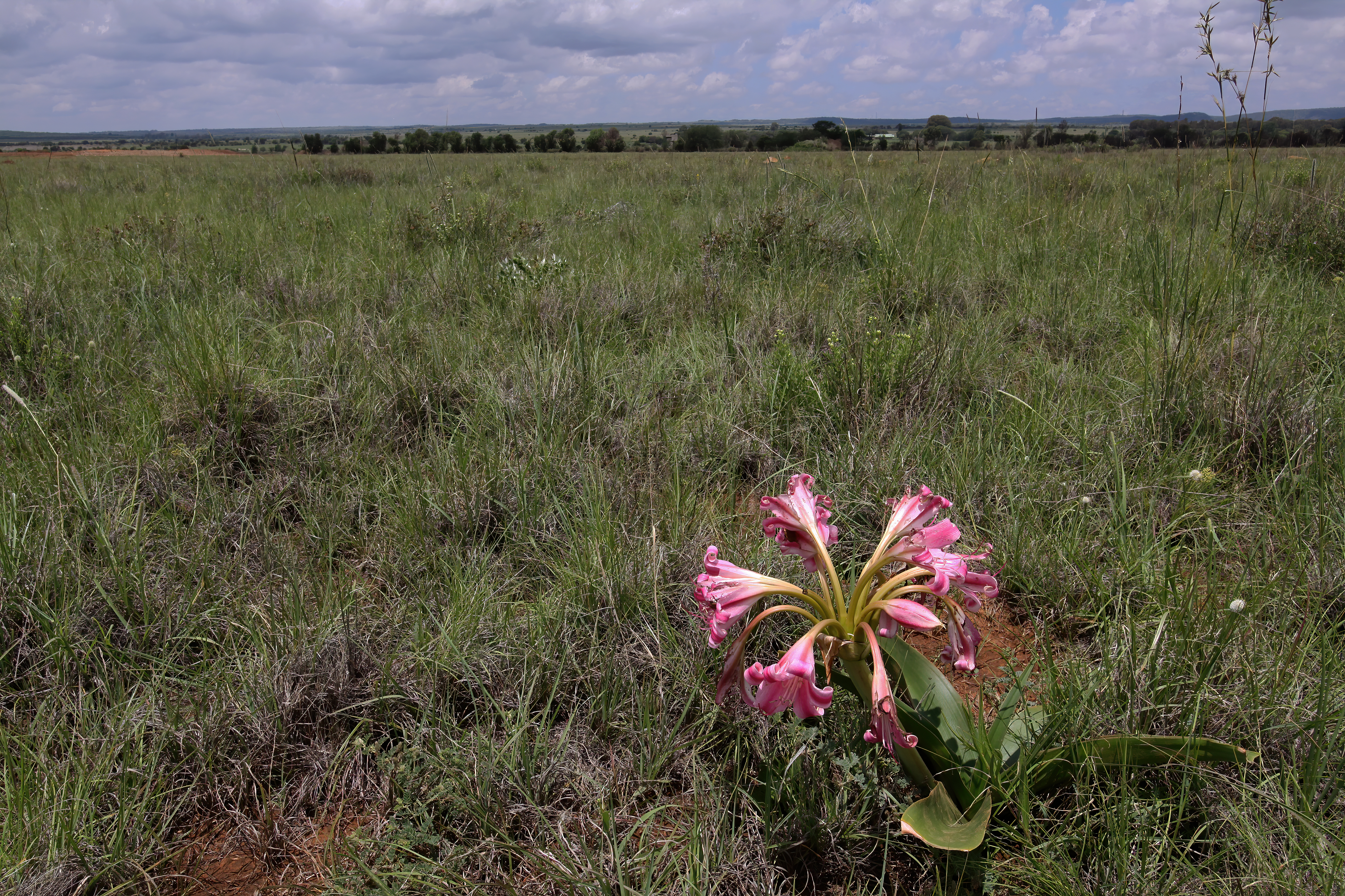 Crinum graminicola, plant in flower; grassland near Wolmaransstad, North West, South Africa